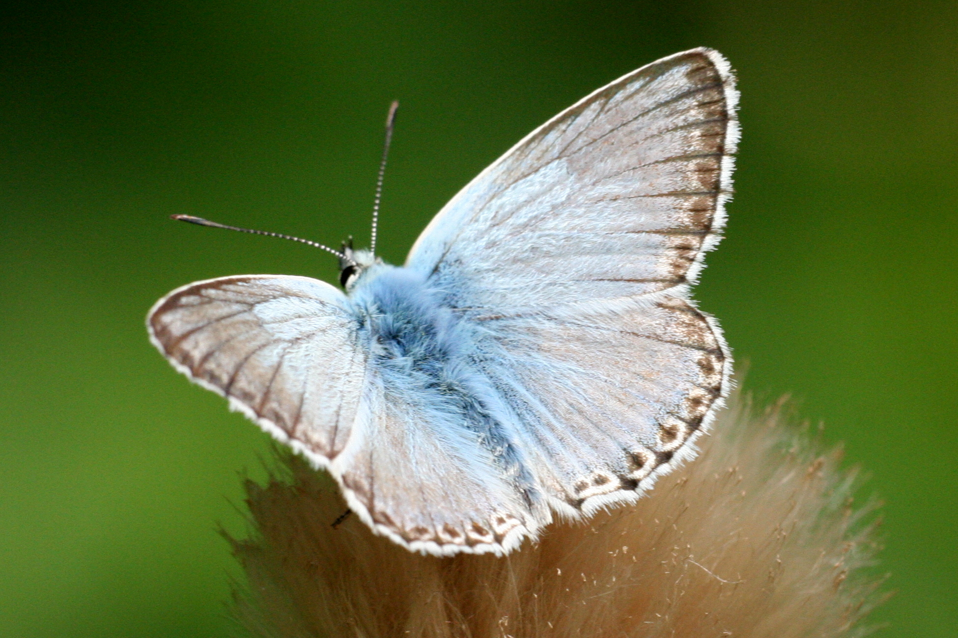 A male Chalkhill Blue butterfly (Polyommatus coridon), photographed in Lehrensteinsfeld